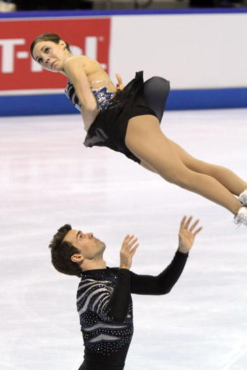 2010 Canadian Figure Skating Championships - Jessica Dubé and Bryce Davison